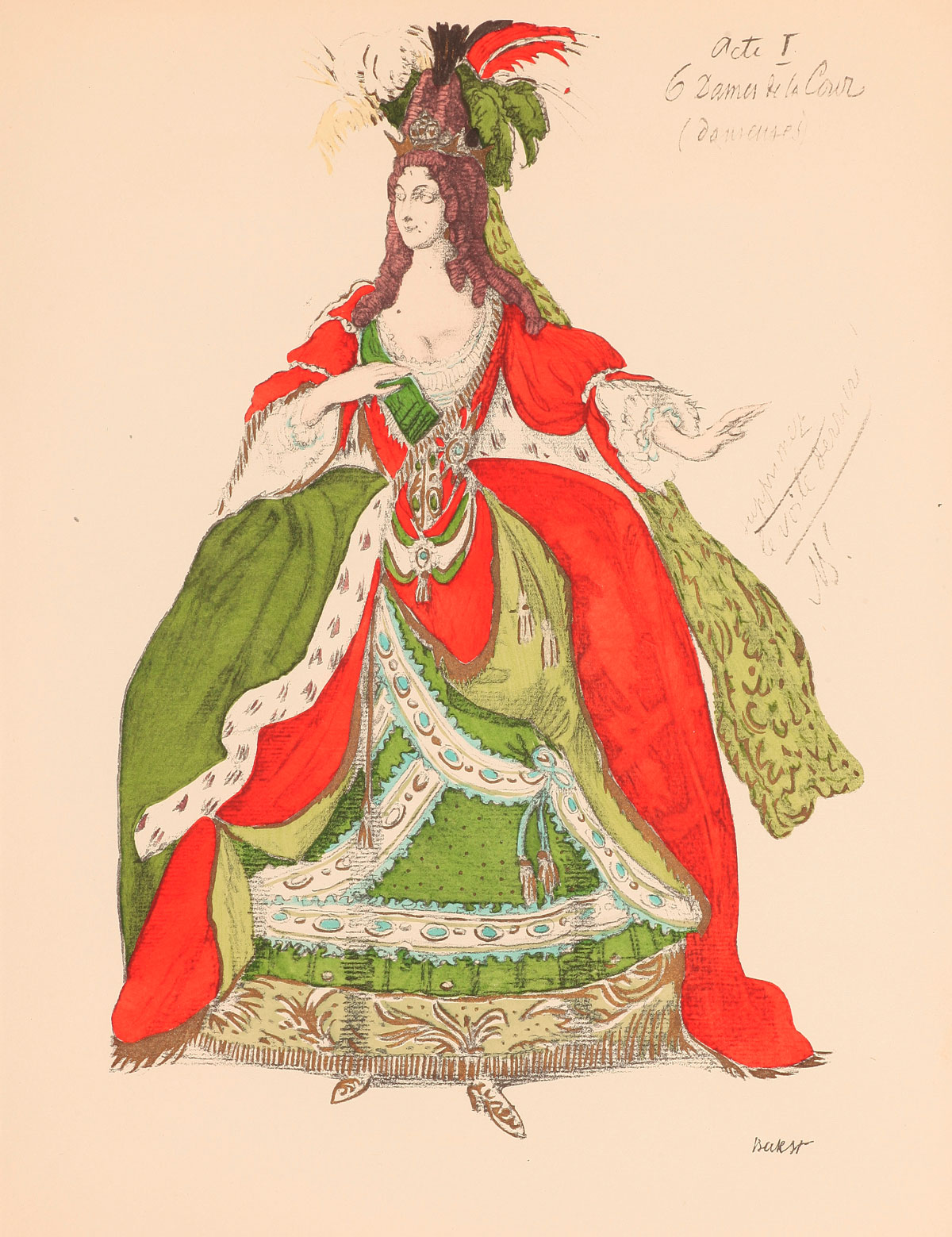 Costume Design for the Queen from "Sleeping Beauty", 1921